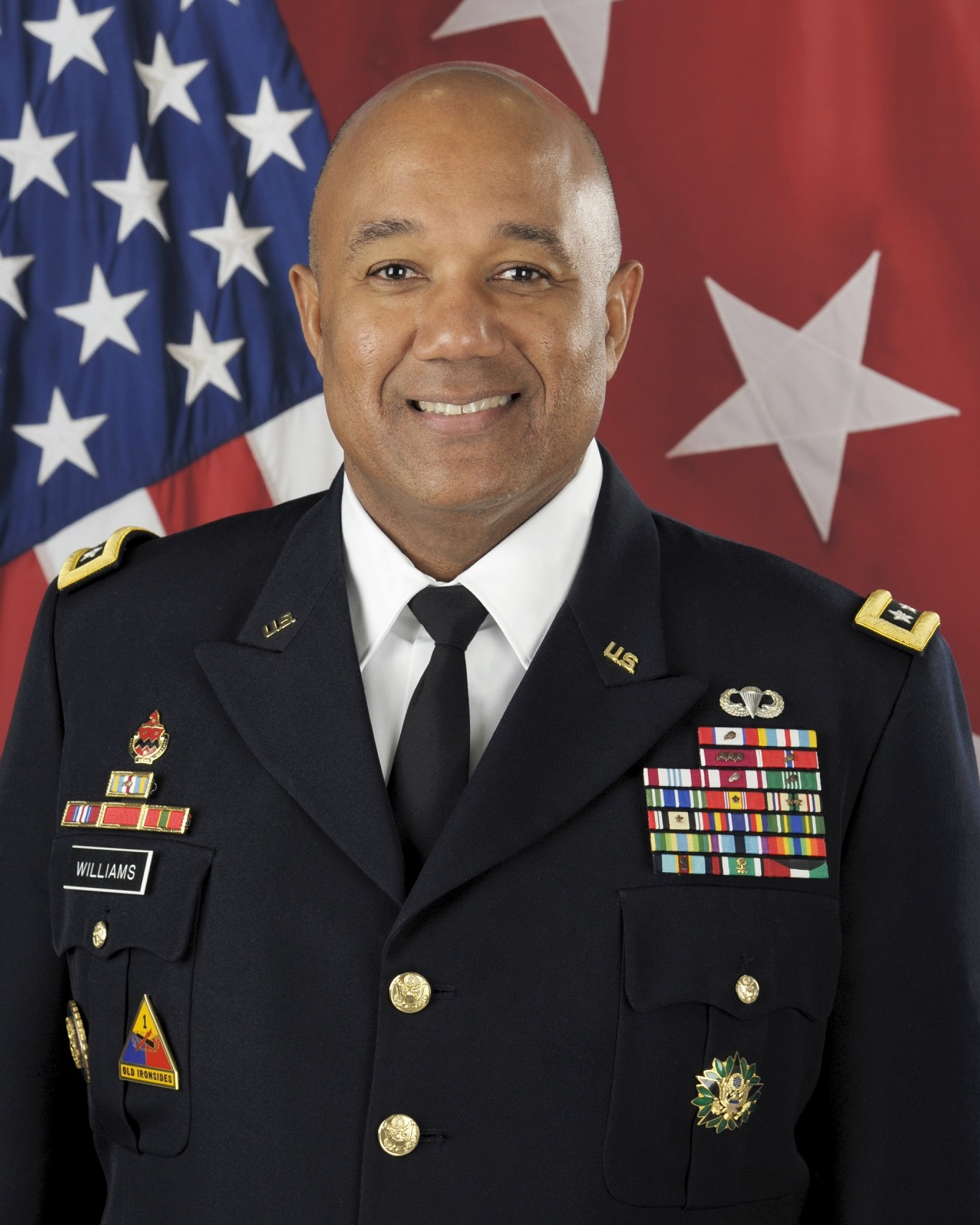 Darryl A. Williams official Army photo